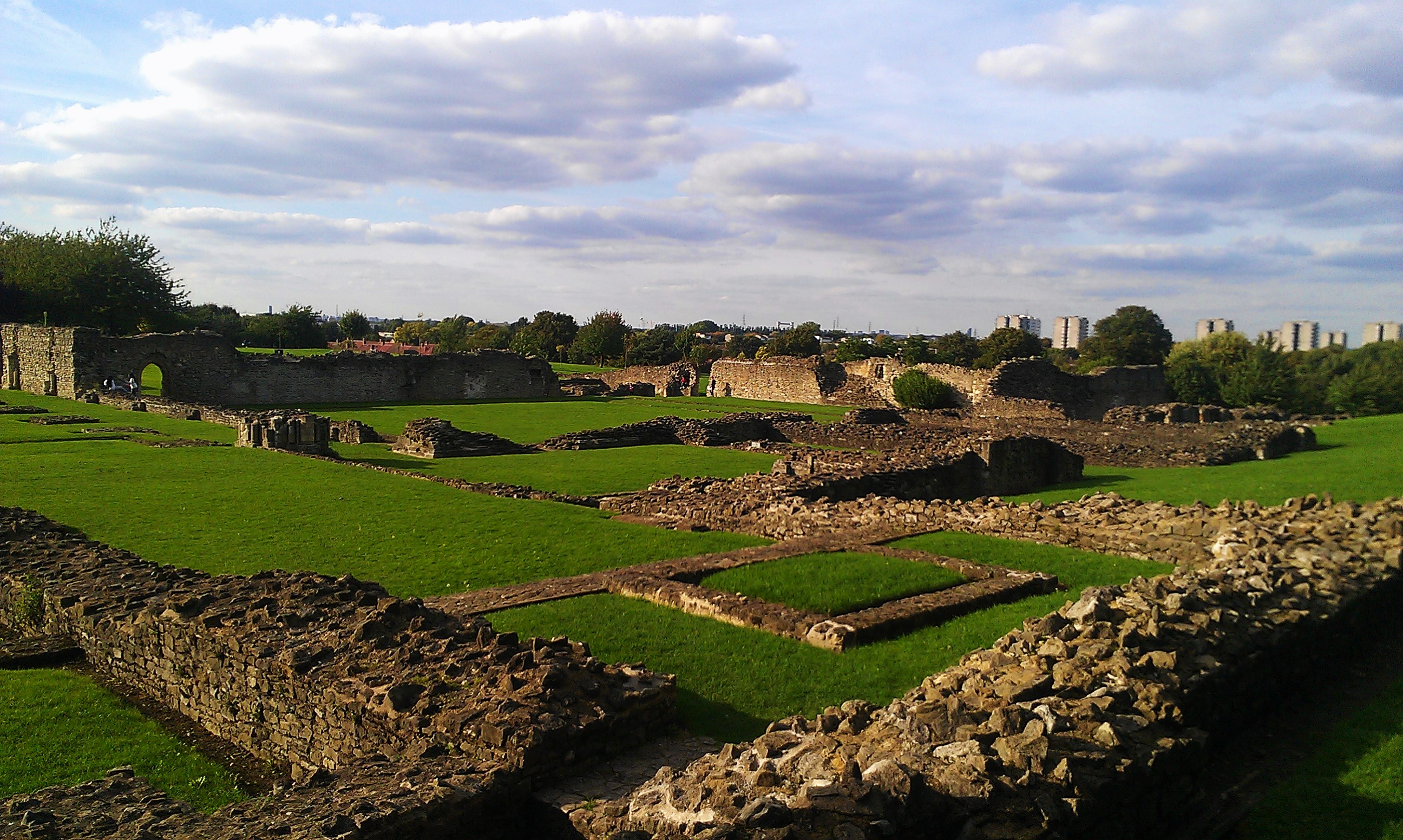 The remains of Lesnes Abbey in southeast London.